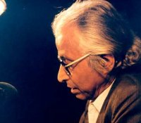 Photo of Sanjeev Chattopadhyay, a Bengali author